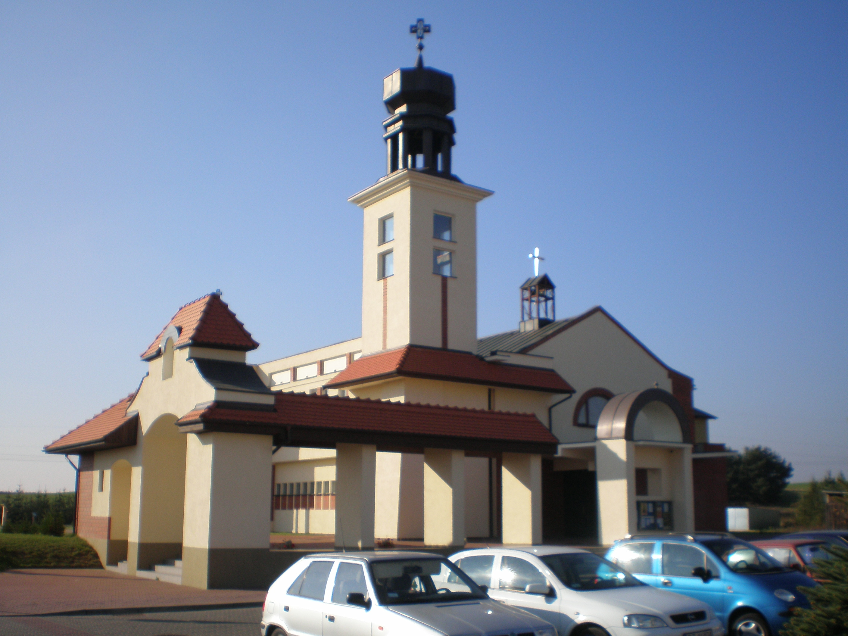 The Murowana Goślina city.